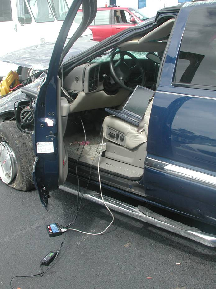 Downloading a Gm Sensing and Diagnostic Module (SDM, aka airbag control module) through the Diagnostic Link Connector using the Vetronix Crash Data Retrieval system.